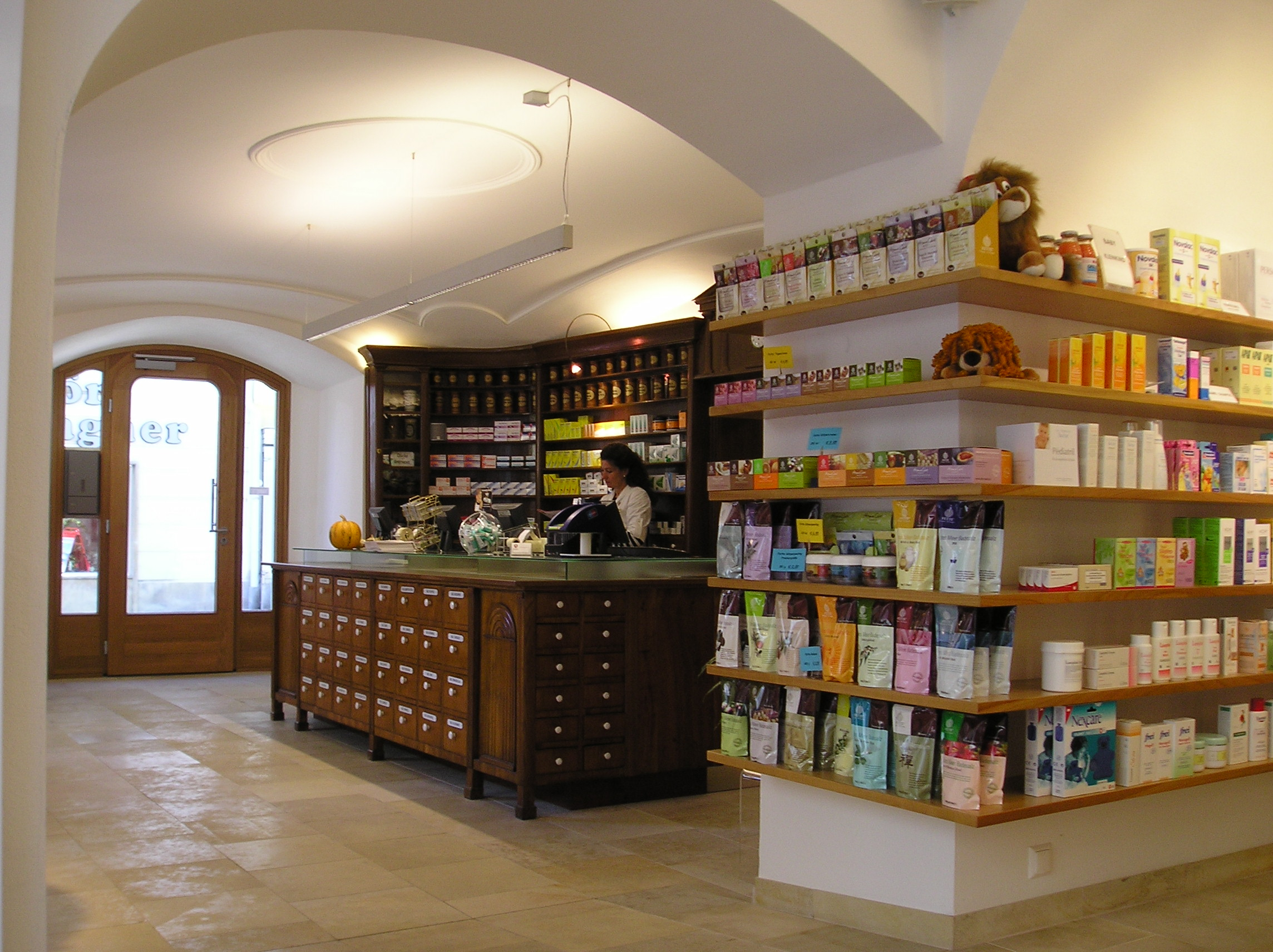 Pharmacy "Zum Goldenen Löwen" at St. Pölten in Austria